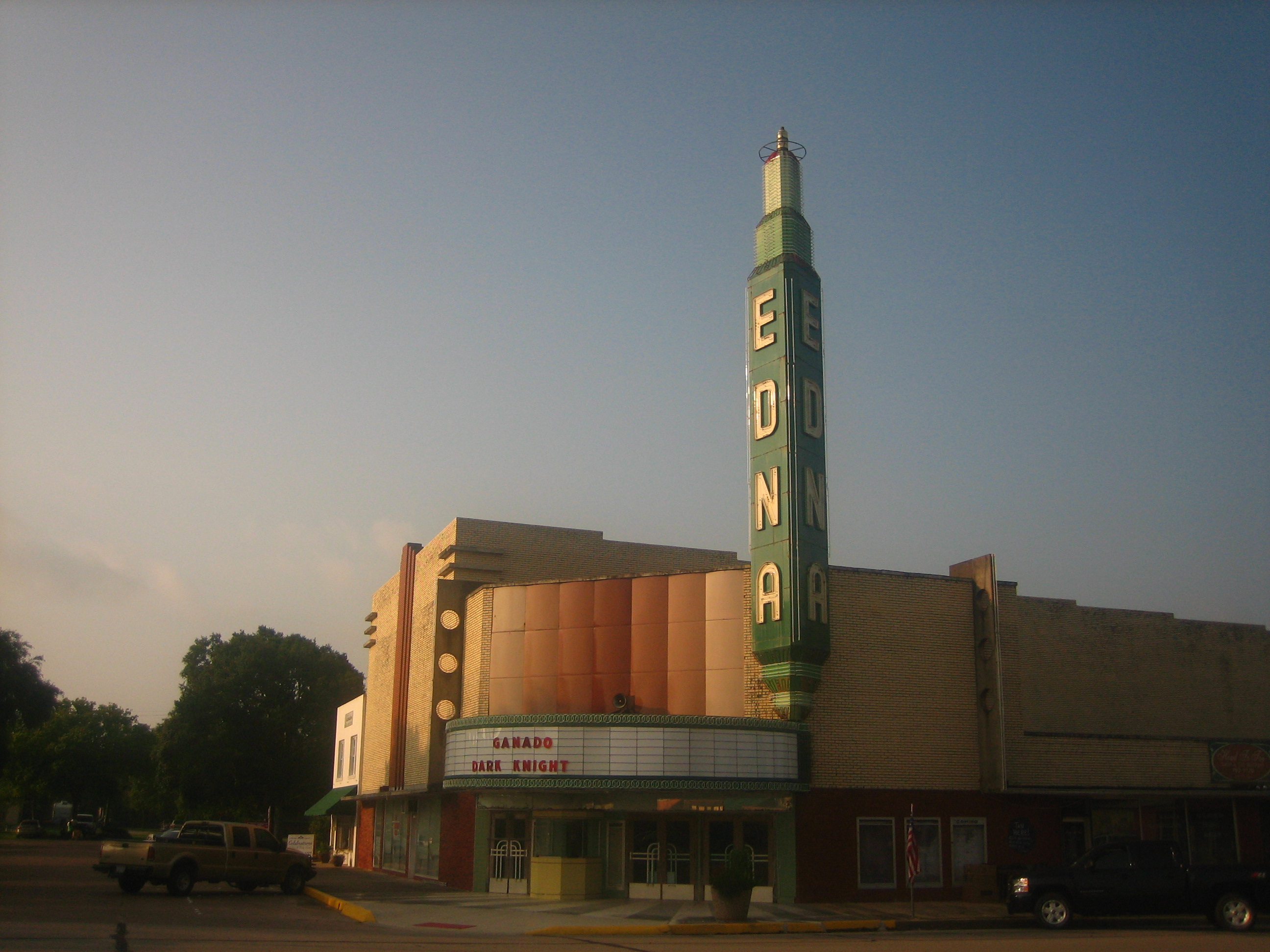 Edna Theater, Edna, Texas Object location28° 58′ 41.25″ N, 96° 38′ 51.75″ W